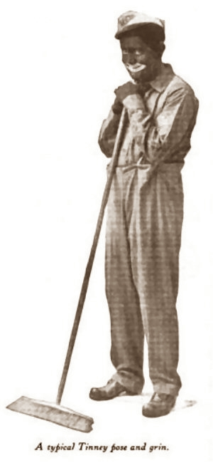 Comedian Frank Tinney